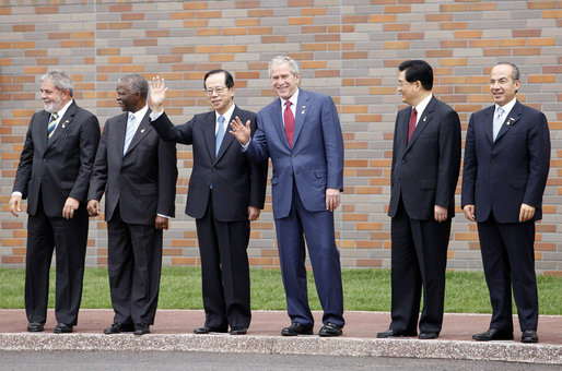 The major economic leaders of the G-8 Summit Wednesday, July 9, 2008, in Toyako, Japan. From left, President Luiz Inacio Lula da Silva of Brazil, President Thabo Mbeki of South Africa, Prime Minister Yasuo Fukuda of Japan, President George W. Bush of the United States, President Hu Jintao of China, and President Felipe Calderon of Mexico.